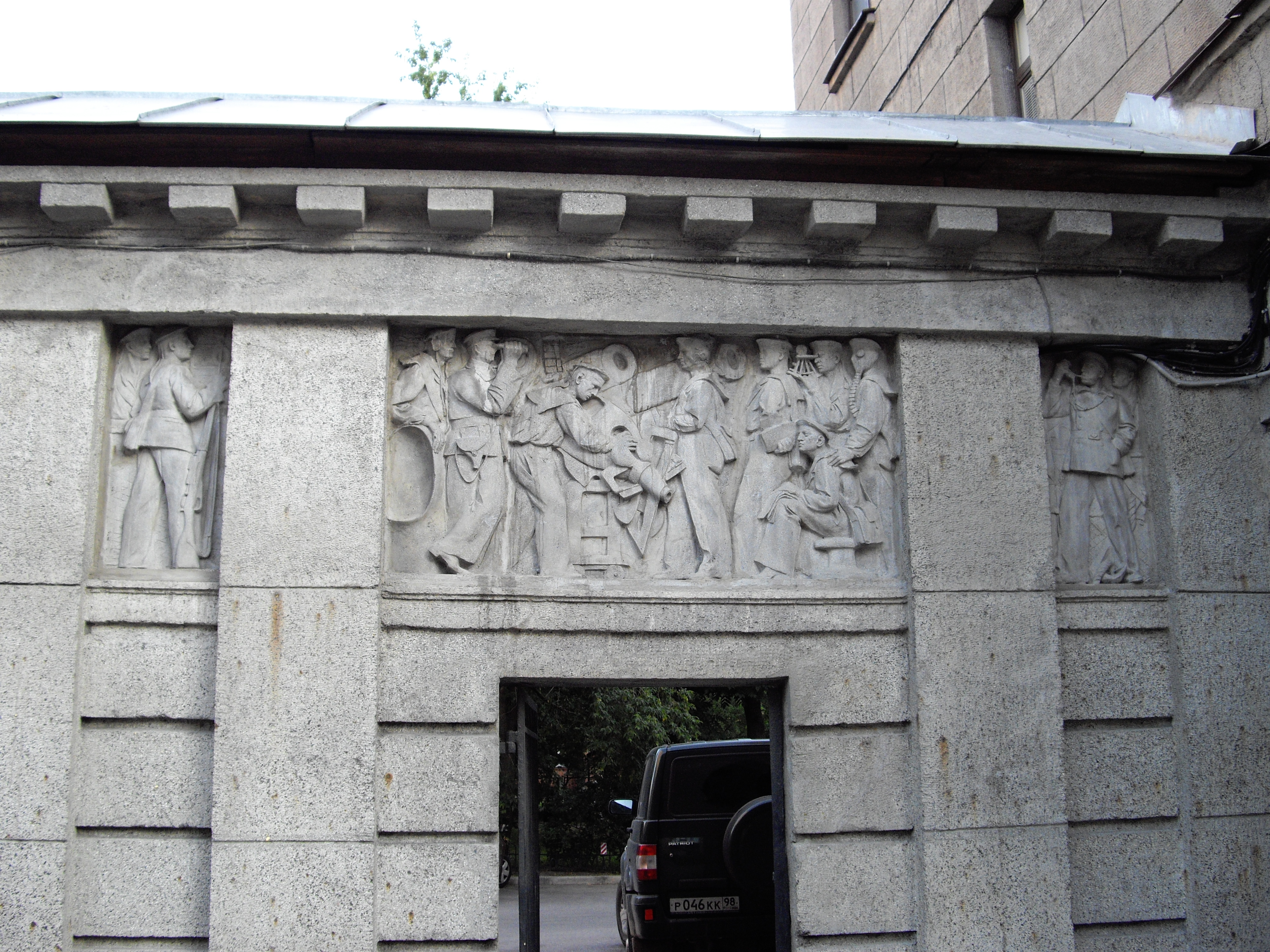 Decoration element on the wall of the building number 5-7 in the Chapygin street (Saint-Petersburg, Russia).